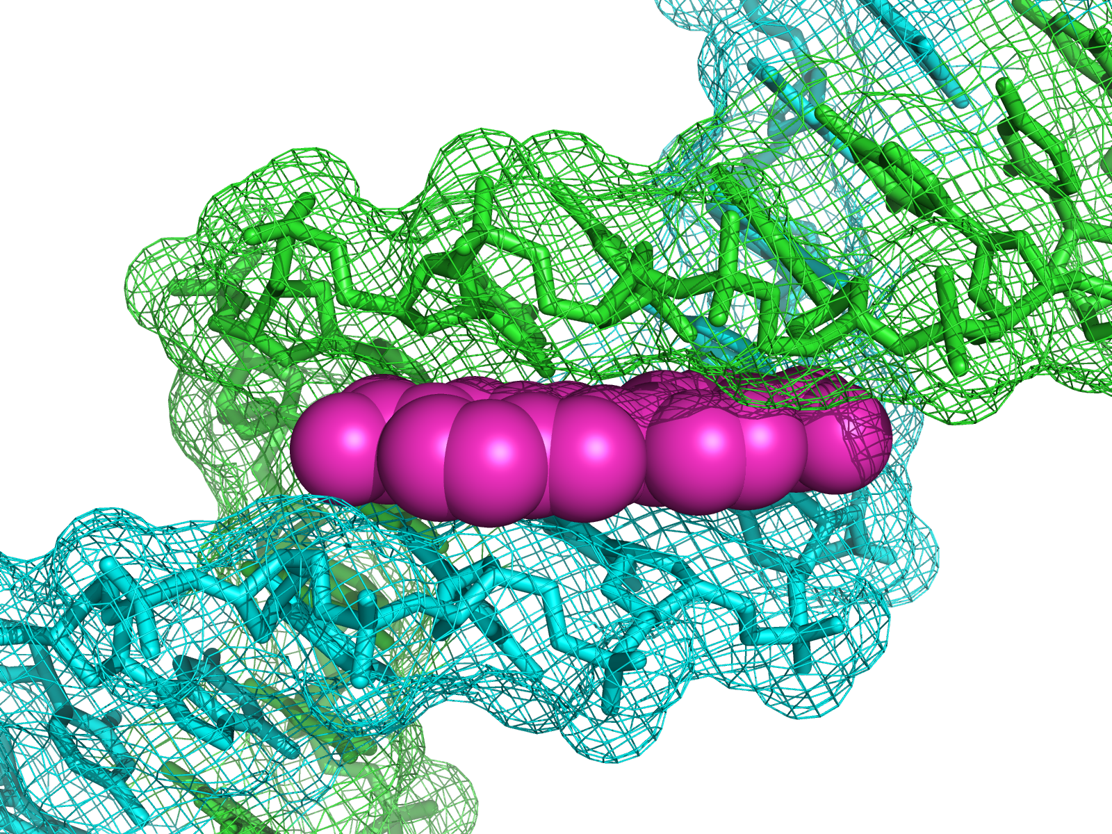 DAPI bound to the minor groove of DNA. From PDB 1D30, rendered in PyMOL.